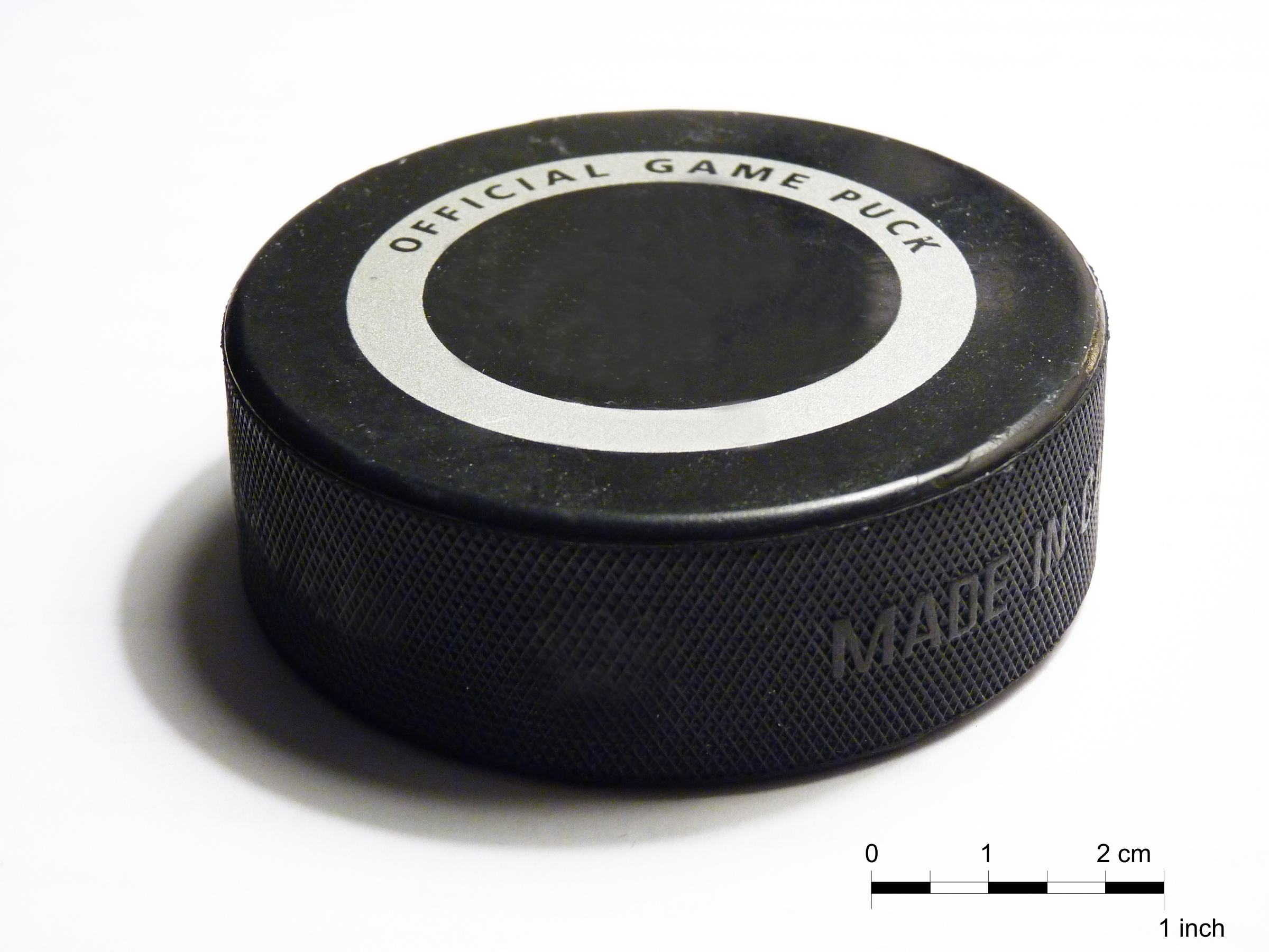 Official Ice hockey puck.